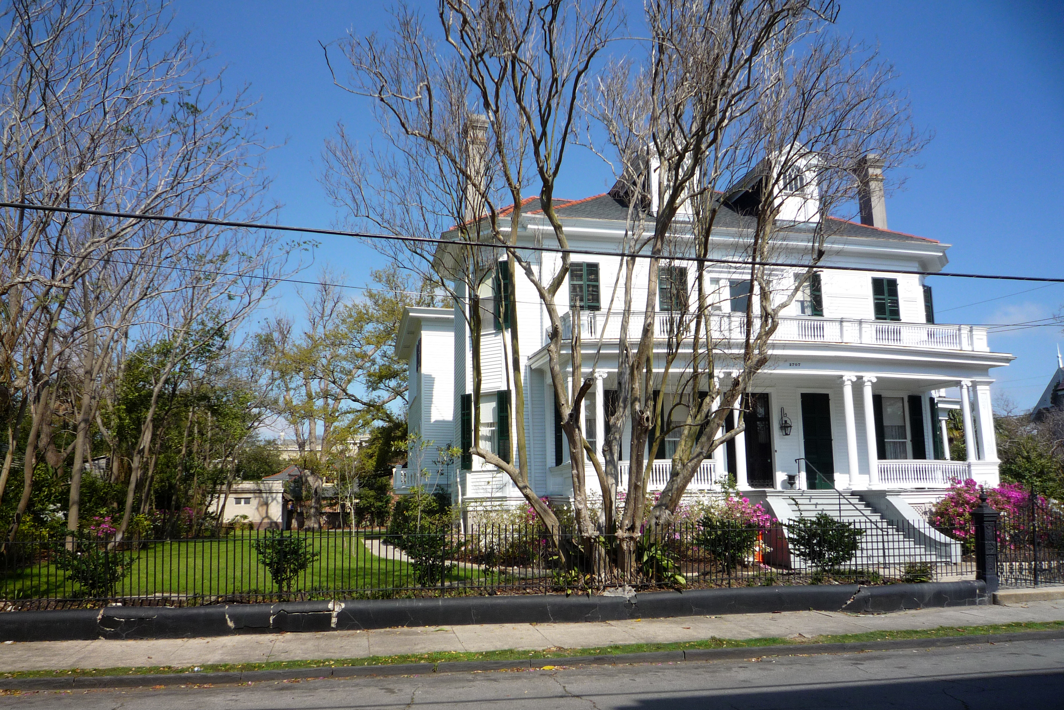 House at 2707 Coliseum Street, Uptown New Orleans. It is known to many from the film the "Benjamin Button house". It is located on the same block as the Commander's Palace), in the Garden District of New Orleans, Louisiana. The home went for sale in early 2009 for $2.85M[1].